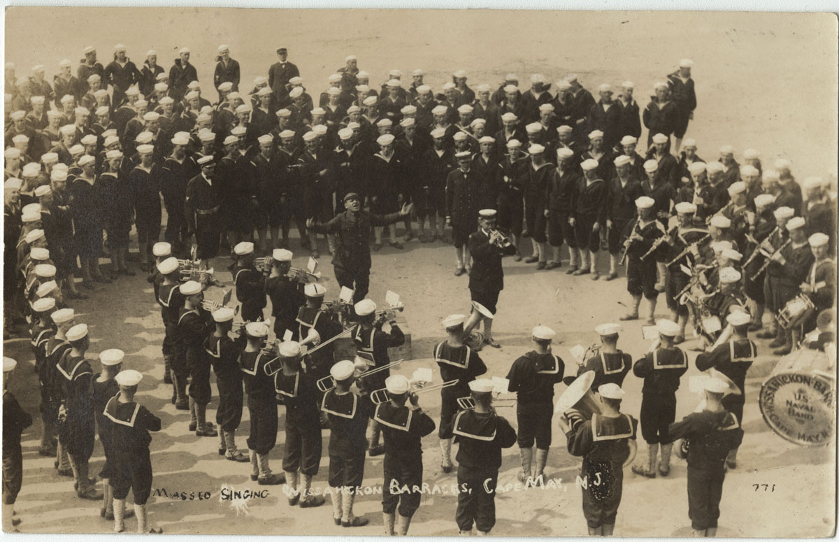 World War I-era postcard shows naval recruits participating in a "massed singing" at the Wissahickon Barracks in Cape May, New Jersey. Beginning on January 8, 1918, the Wissahickon Barracks became the designated entry camp for all naval recruits in District Four, a geographic area that included Philadelphia and the Jersey Shore. Accession Number: P.2003.17.4